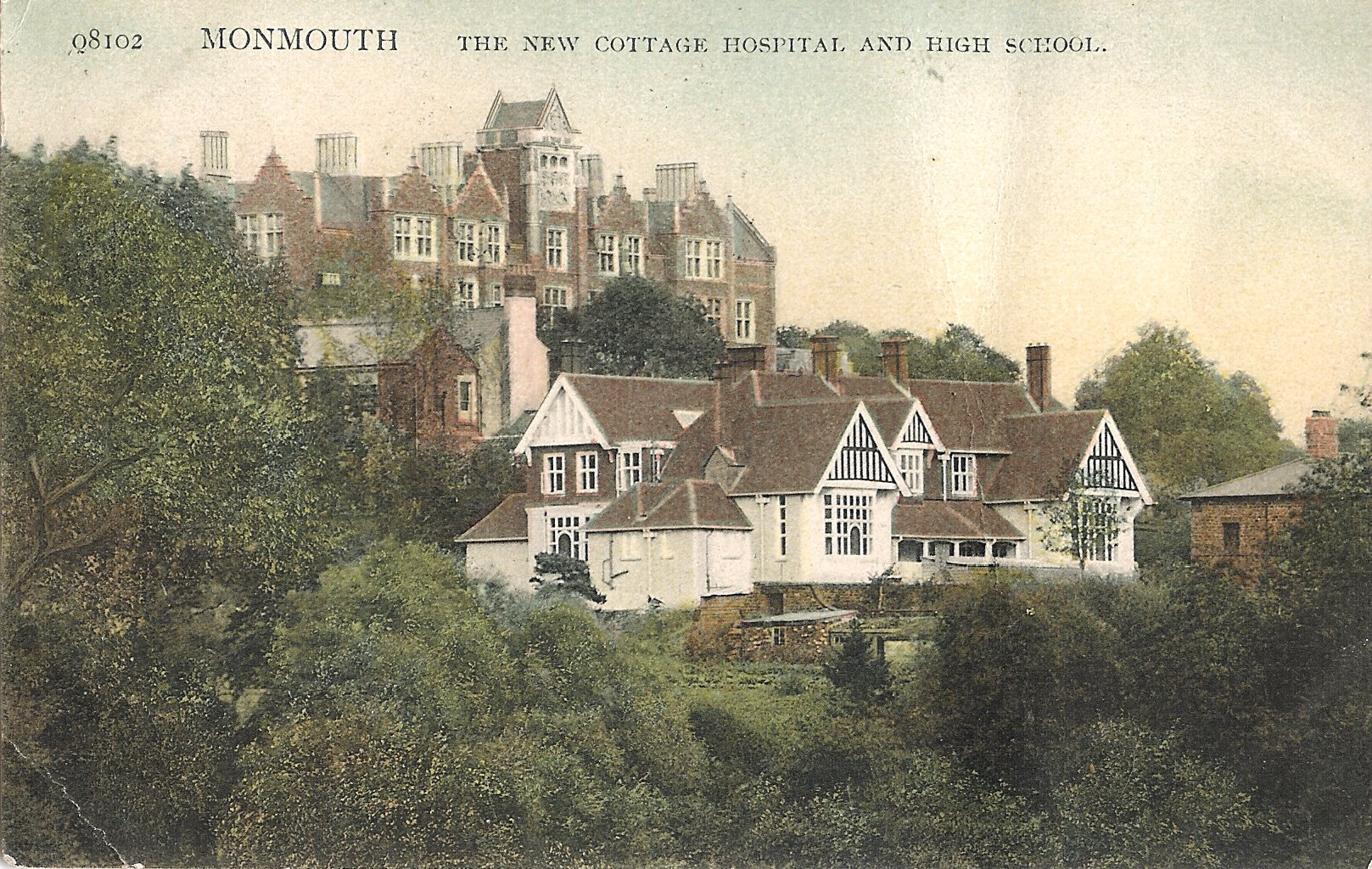 High School and Former Cottage Hospital Monmouth - 1909